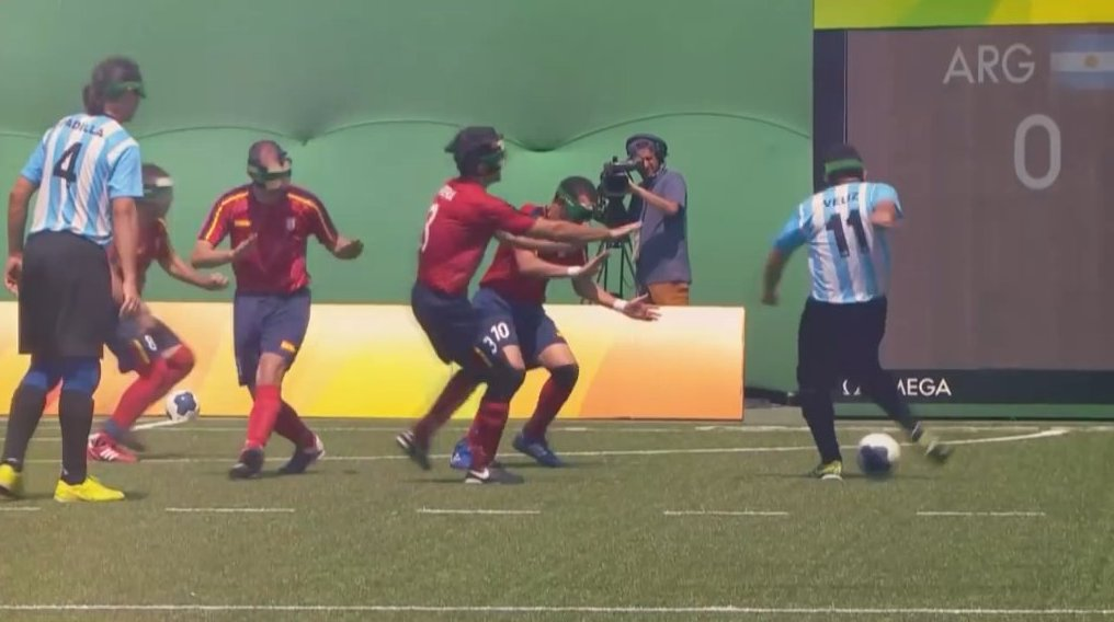 Nicolás Véliz (Los Murciélagos) converting goal for Argentina against Spain. Football 5. Paralymplics Río 2016.